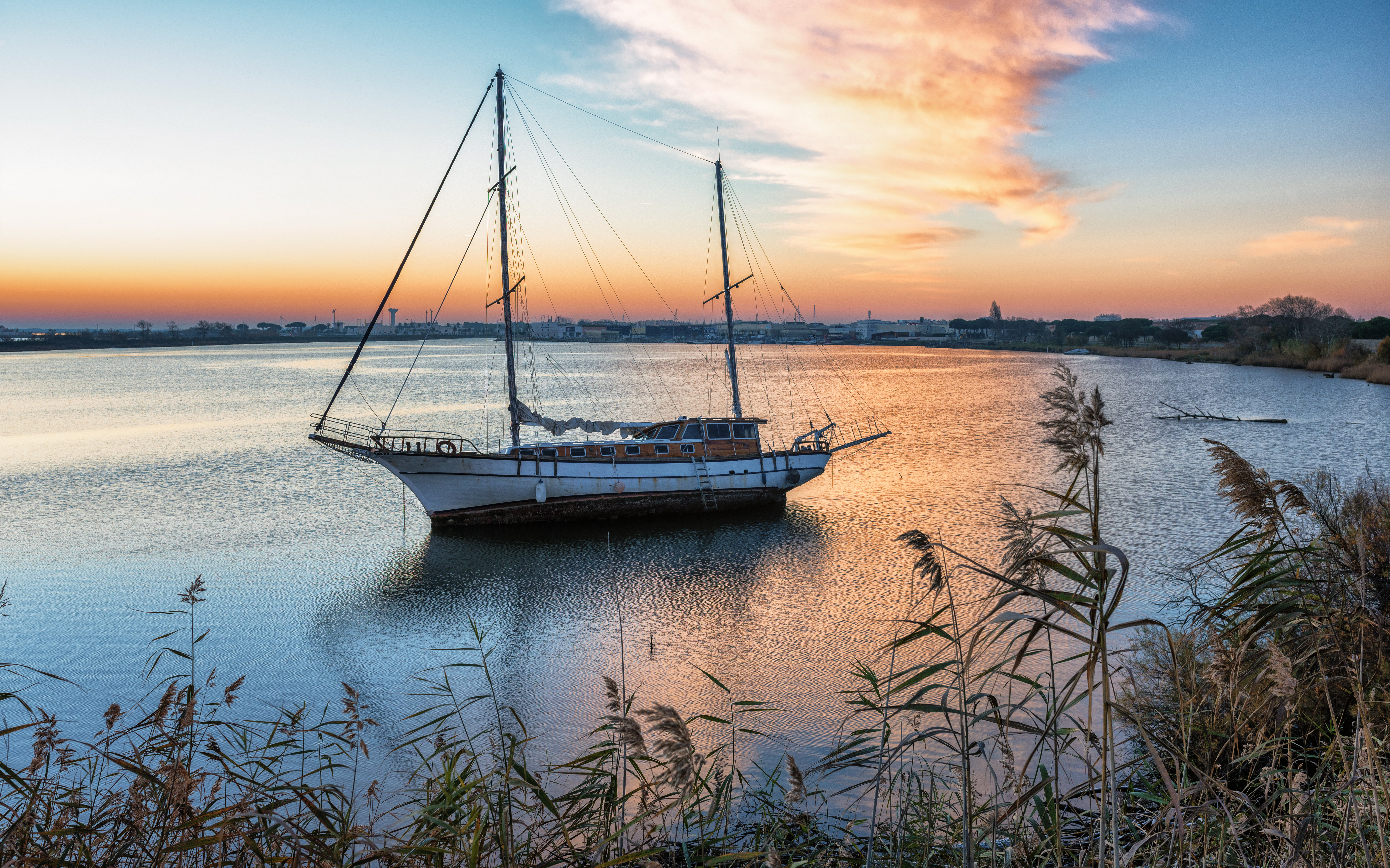 Sailboat Vents du Sud on the body of water "Plan d'eau du Vidourle" - Le Grau-du-Roi (Gard, France)